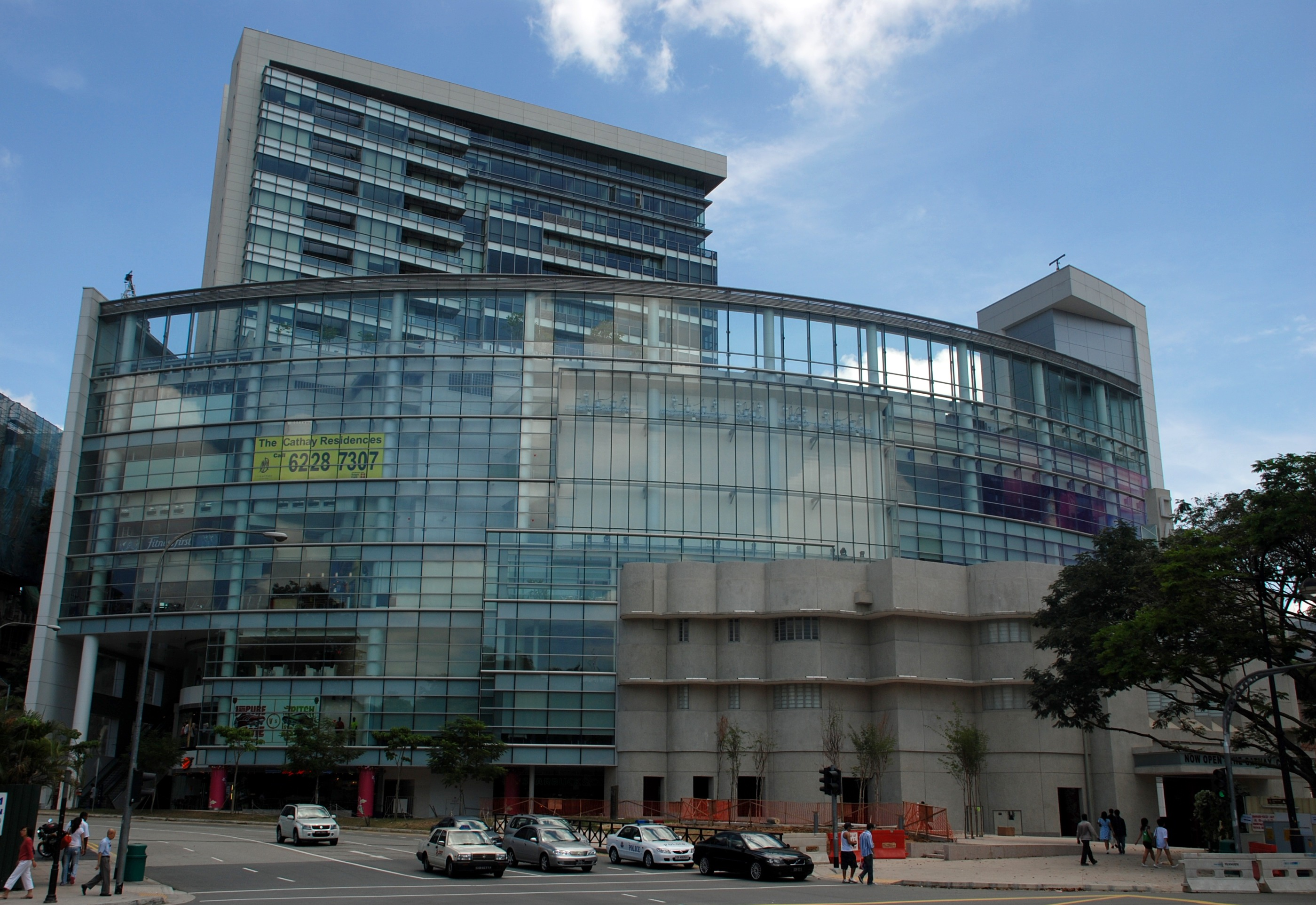 The Cathay, Singapore.